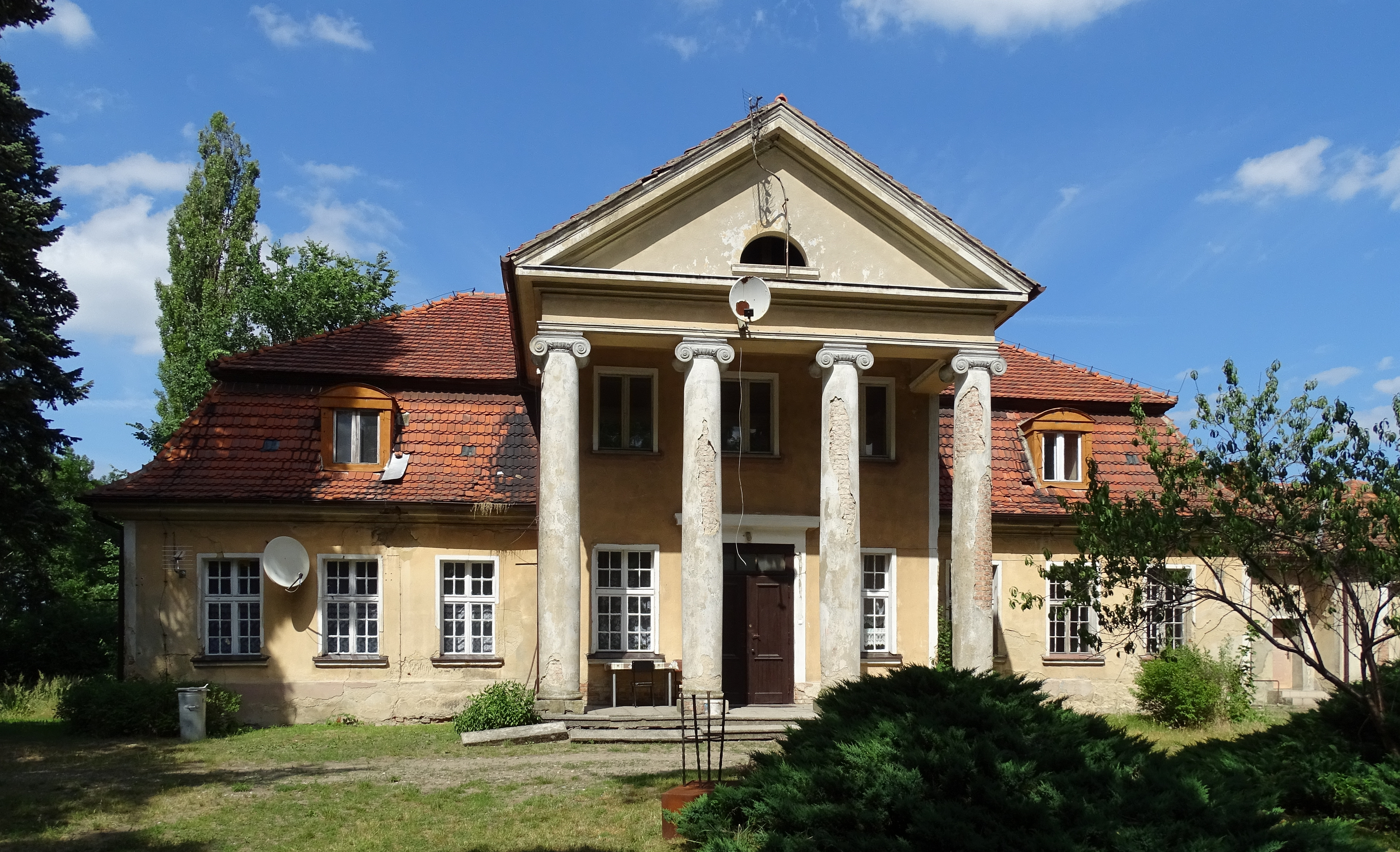 Tarchalin, Rawicz county, Poland. The manor house, built in the middle of the 19th century. Rebuilt in the next one.